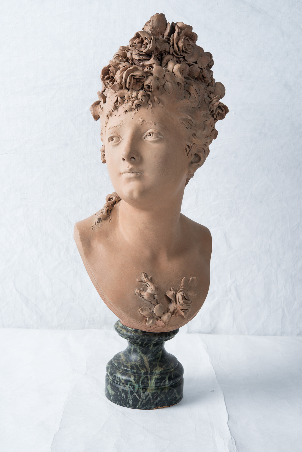 Bust of a Lady